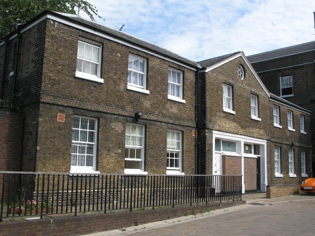 Old houses in Foreshore, SE8